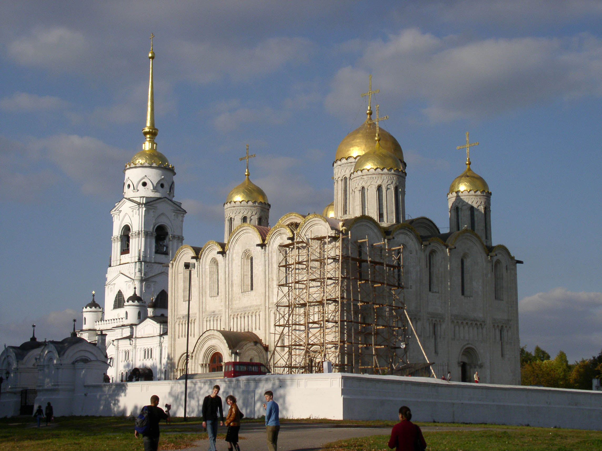 Assumption Cathedral. Vladimir, Russia.